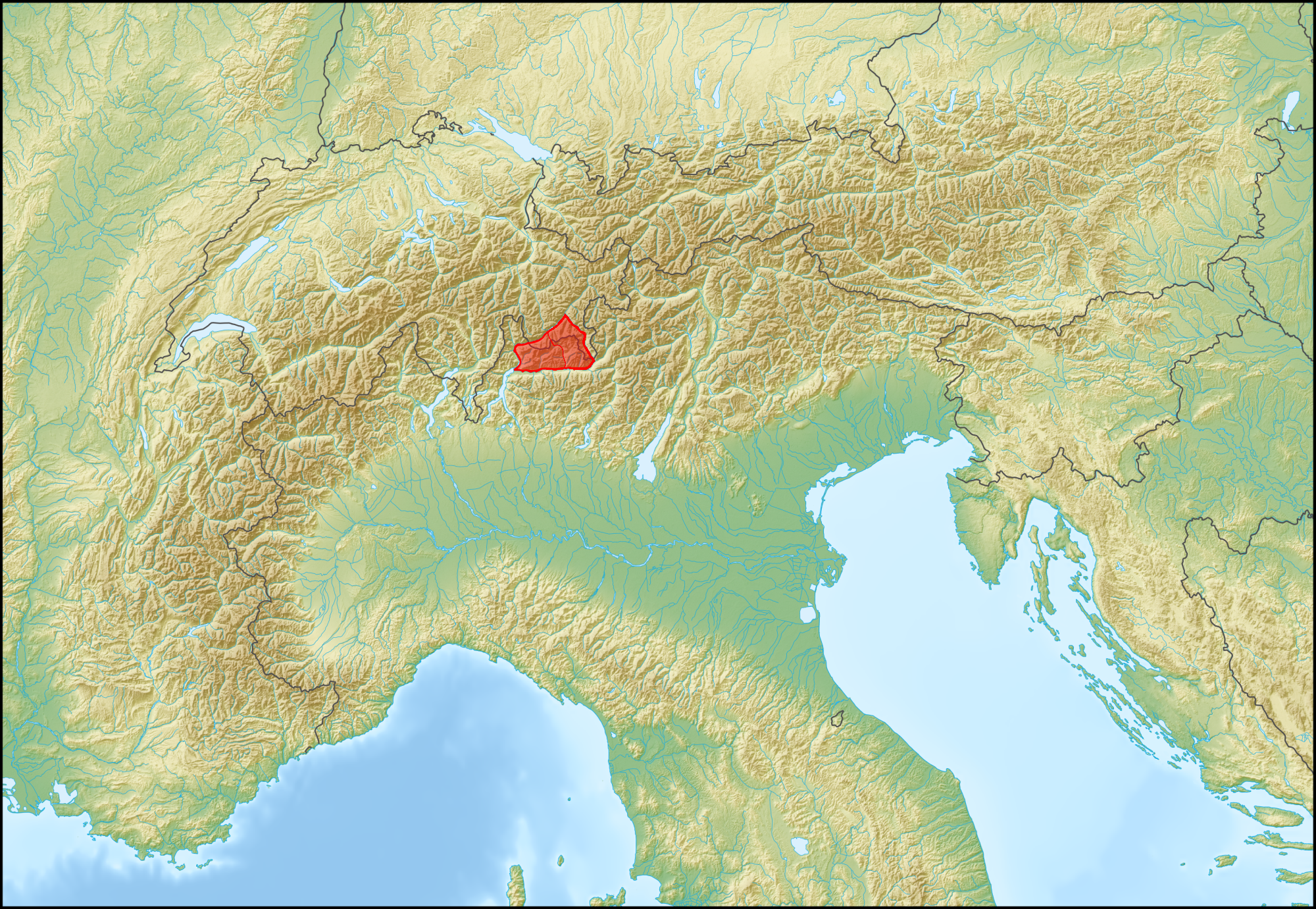 The location (red) of Bernina Alps (Alpi del Bernina, Bernina-Alpen, AVE 66) in the Alps, according to Alpenvereinseinteilung der Ostalpen im Alpenvereins-Jahrbuch "Berg '84".